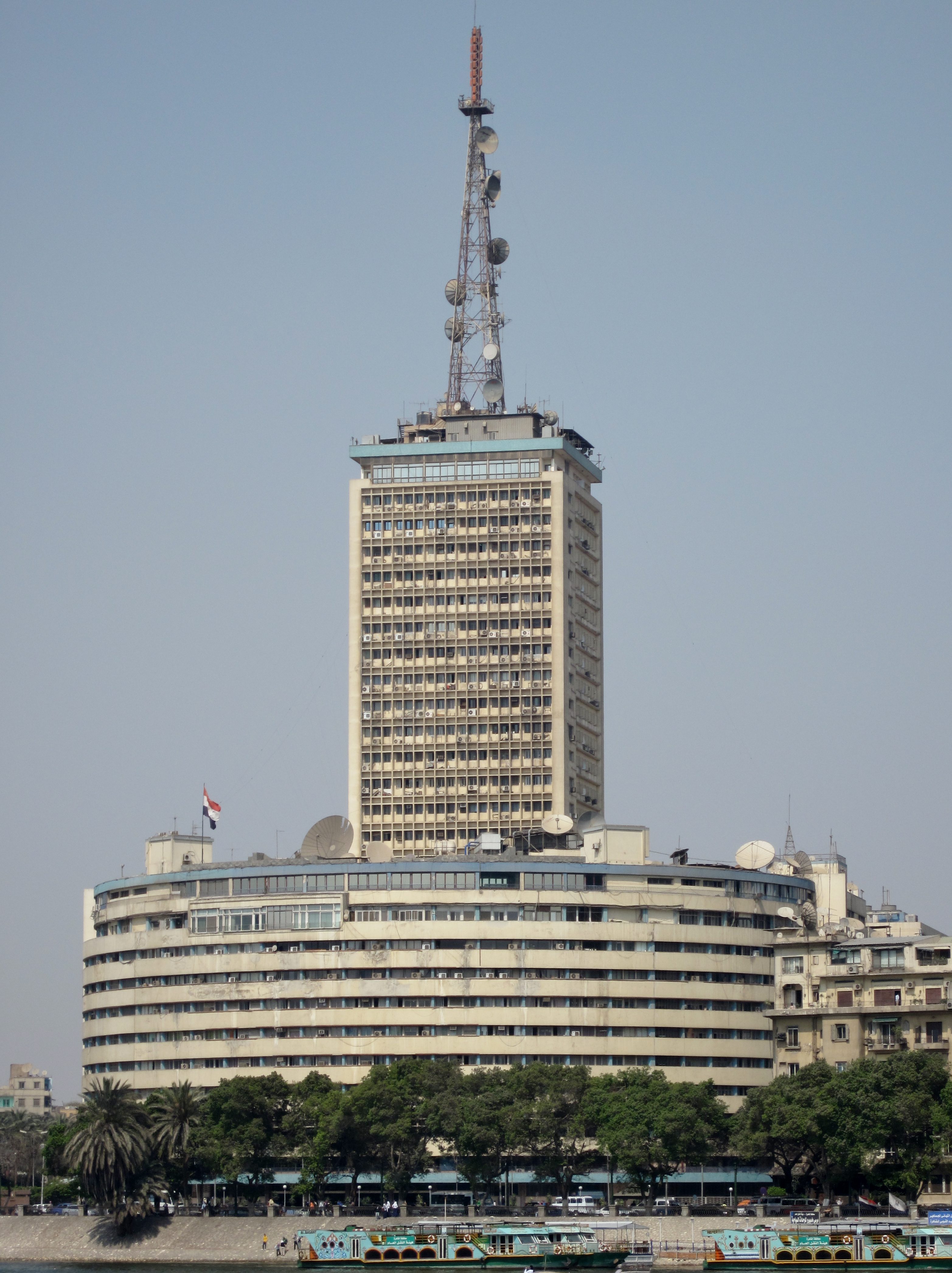 Maspiro Building (Egyptian Radio & Television Union HQ), on Nile Corniche north of Tahrir Square and 6th October Bridge, Cairo.